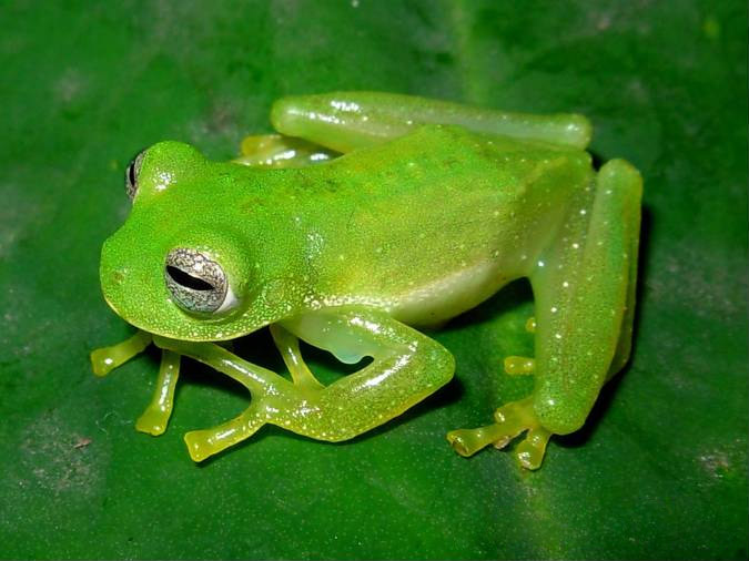 Centrolene robledoilocation: Roncesvalles, Tolima (Colombia)